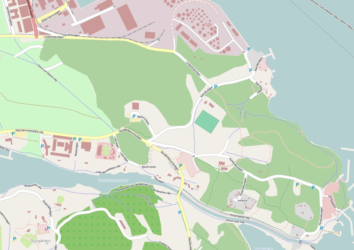 Östra Gärdet in Stockholm